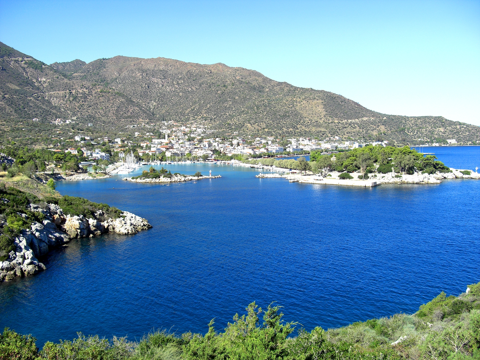 City of Methana in Greece